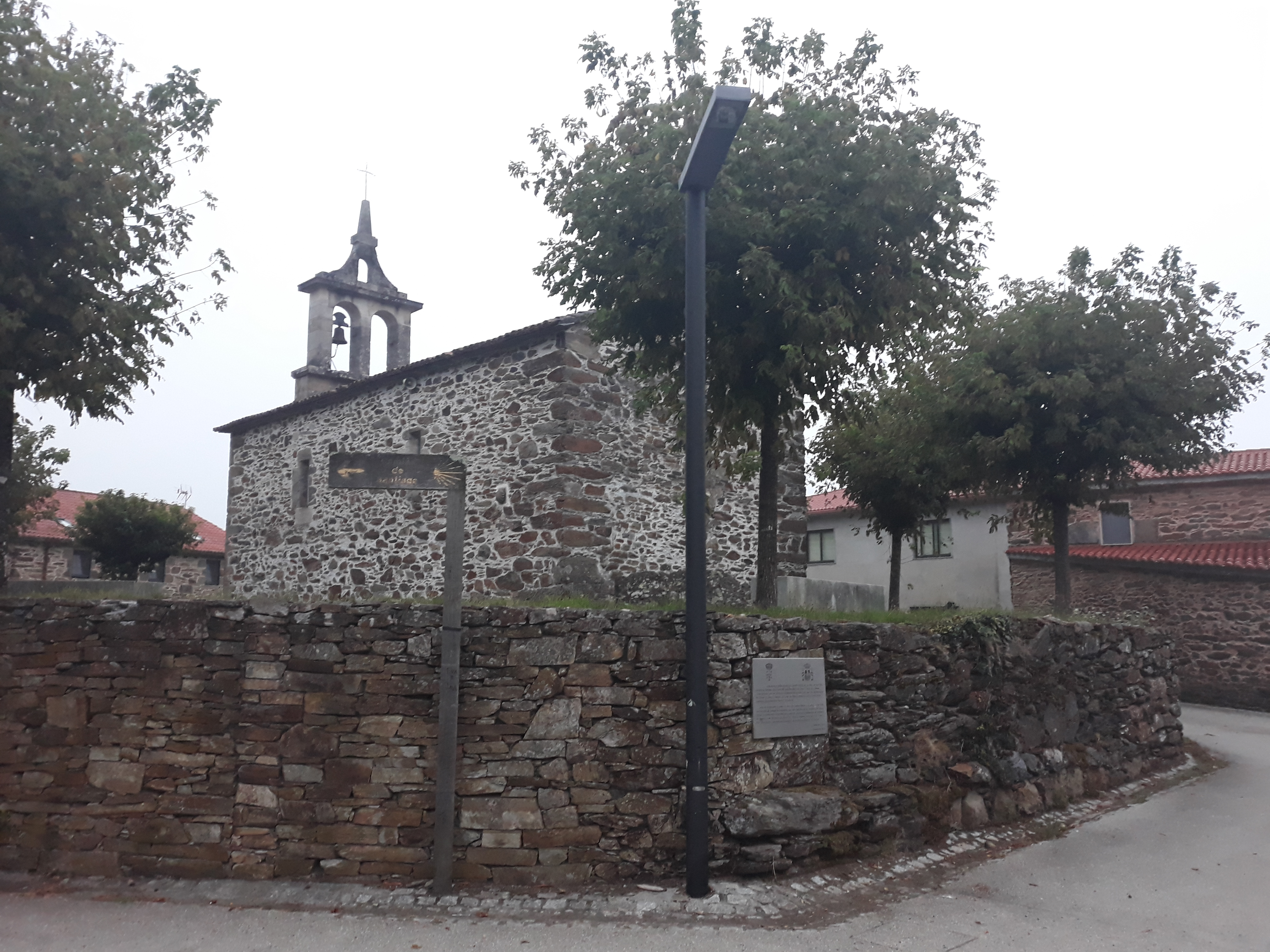 Church of Saint Pelagius in the village of San Paio, Sabugueira, Santiago de Compostela, A Coruña province, Galicia, Spain.